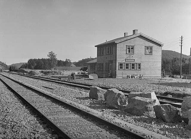 Nodeland Station on the Sørlandet Line, Songdalen, Norway